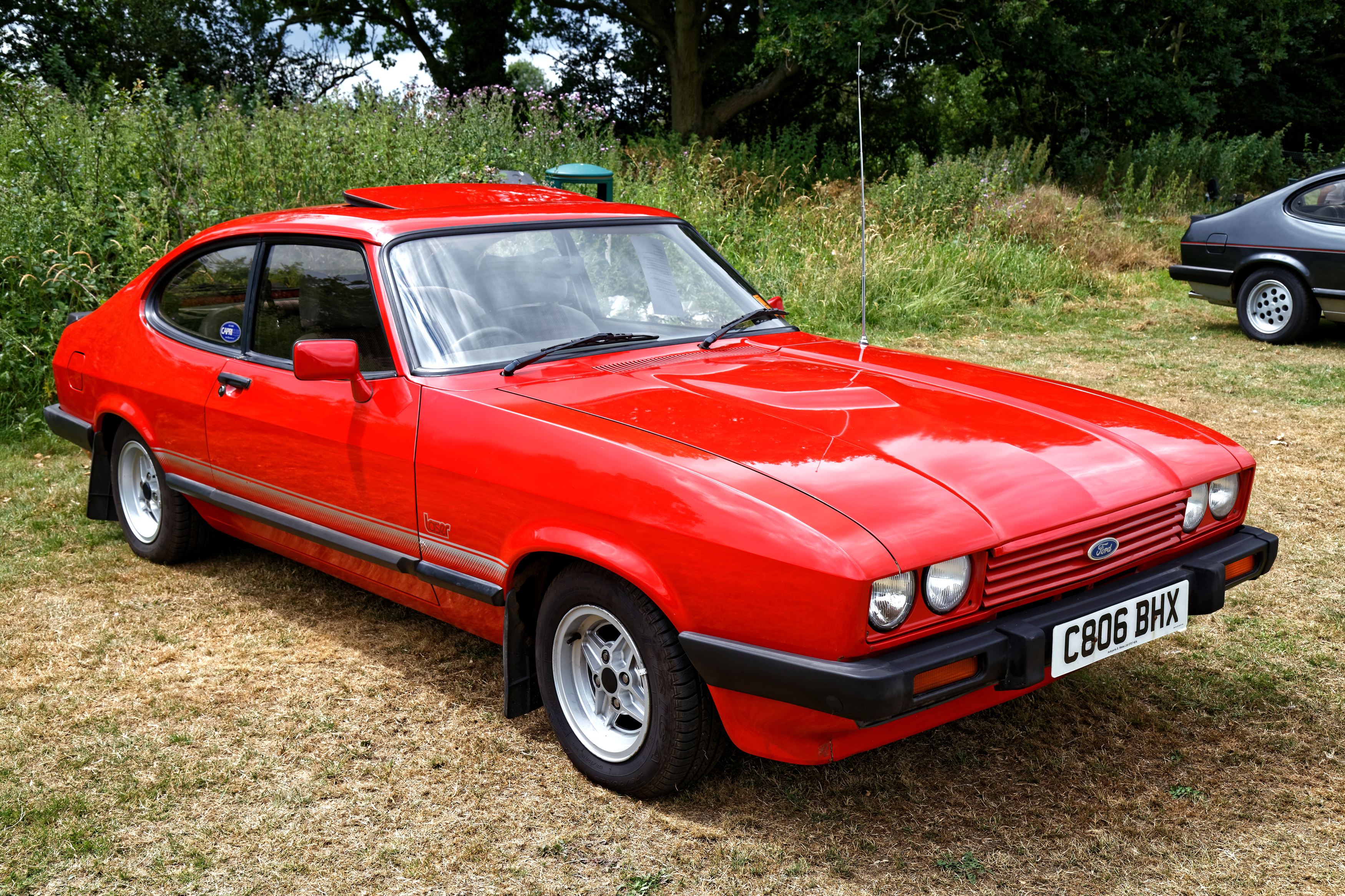 1985 Ford Capri III Laser 1993cc at Hatfield Heath Festival 2017, on Hatfield Heath village green, Essex, England.Camera: Canon EOS 6D with Canon EF 24-105mm F4L IS USM lens.Software: RAW file lens-corrected, optimized and converted to JPEG with DxO OpticsPro 11 Elite, and likely further optimized and/or cropped and/or spun with Adobe Photoshop CS2.